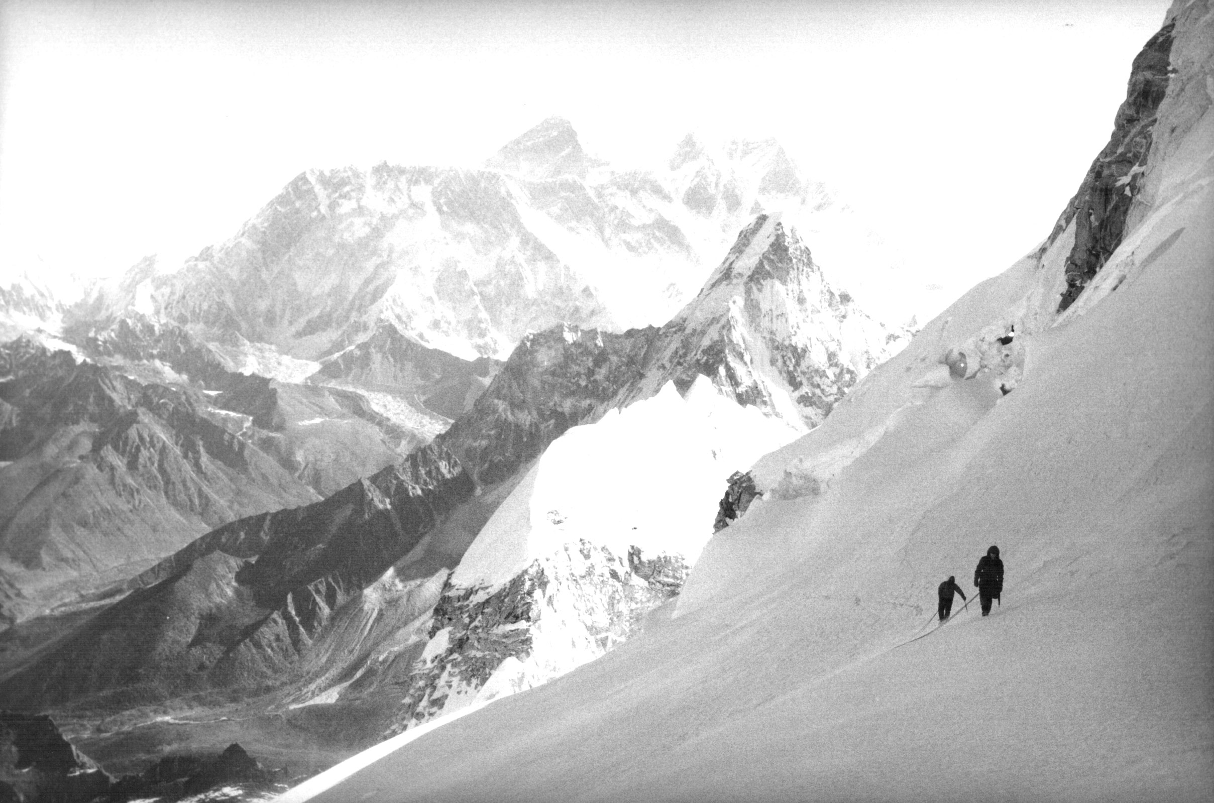 CLIMBERS ON KANGTEGA, the ascent of the northwest ridge of Kangtega, Solu Khumbu, Nepal, by Jeff Lowe, Alison Hargreaves, Marc Twight, and Tom Frost, pre-monsoon, 1986. Alison Hargreaves and Jeff Lowe move above the high camp onto the Kangtega Plateau on our summit day, 1 May 1986. In the background: Everest, behind the Lhotse-Nuptse ridge, and Ama Dablam.